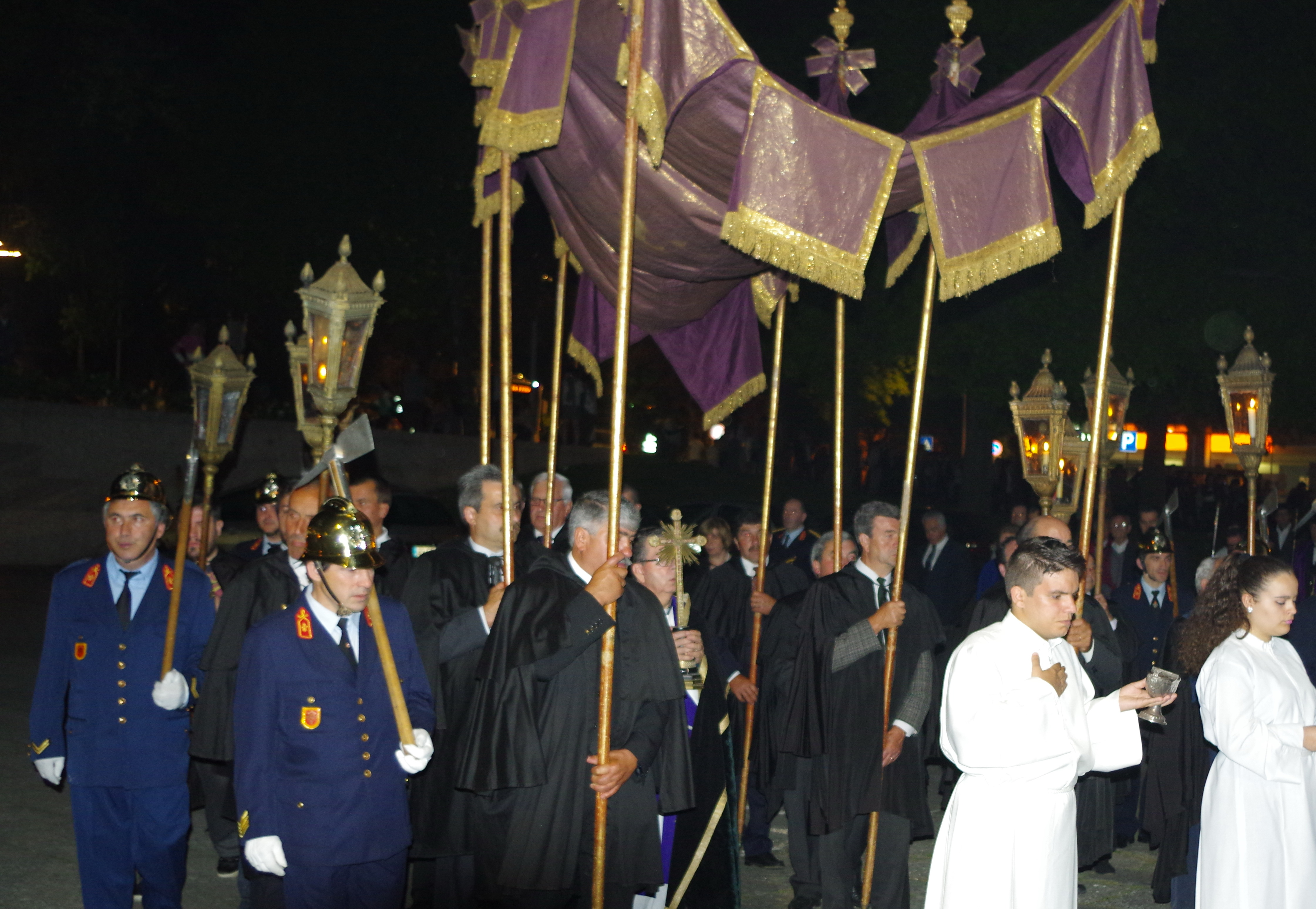 17.4.14 3 Guimaraes Easter Thursday Parade 426